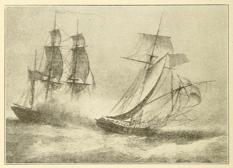 A sketch of the Capture of the El Mosquito from the book "Historia de Puerto Rico".